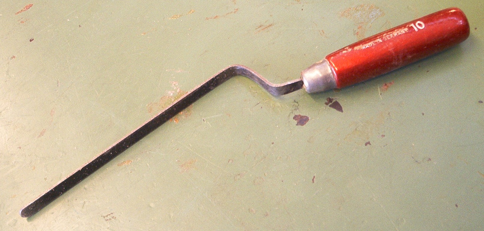 Pointing trowel.